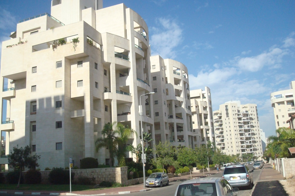 Holon, Architecture of Israel